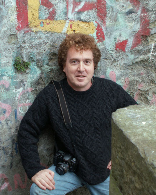 David Eppstein in Limerick, Ireland, for the 13th International Symposium on Graph Drawing, September 2005